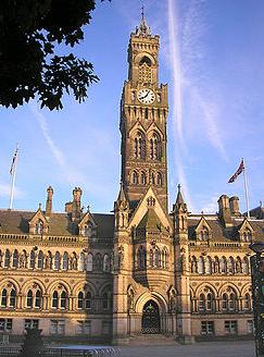 Town Hall in Bradford